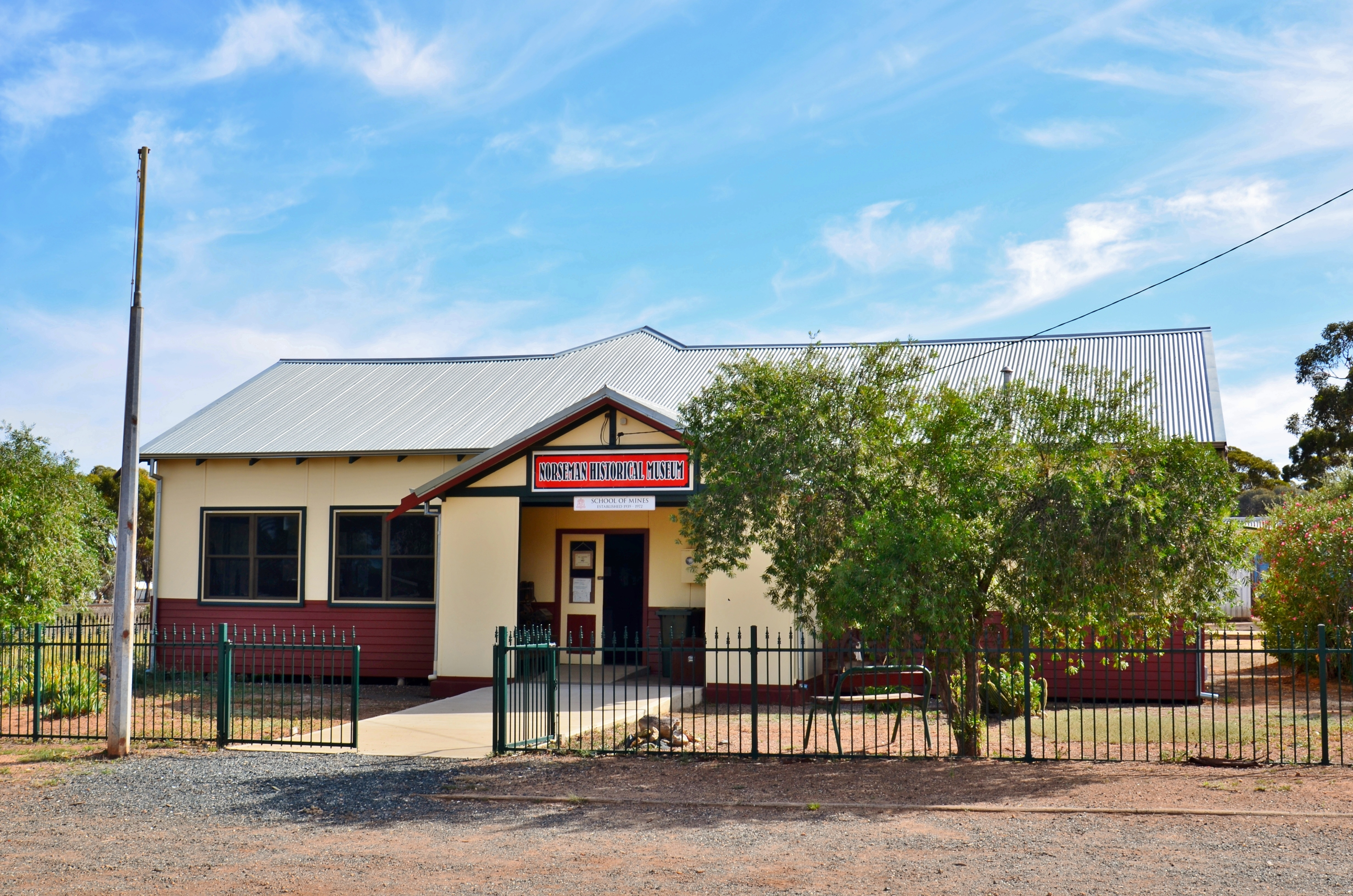 View of the Norseman Historical Museum, Norseman, Western Australia